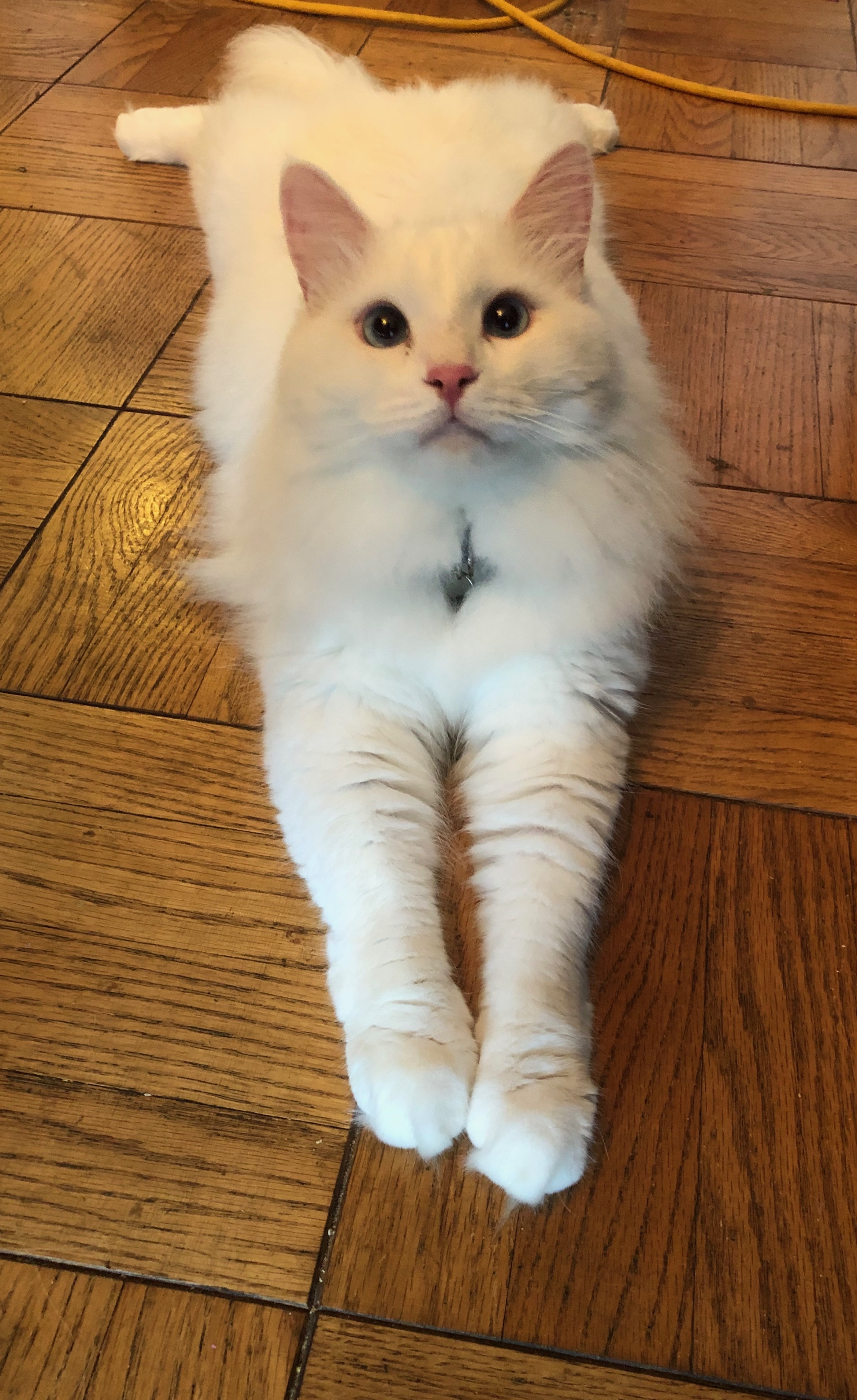 One-year old white Siberian cat - Chairman Meow Bao - posturing (splooting). Image provided by Margaret (Meg) Greer.